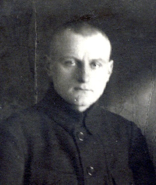 Kipras Bielinis, member of Šiauliai city concil and member of Seimas, 1918 Šiauliai, Lithuania